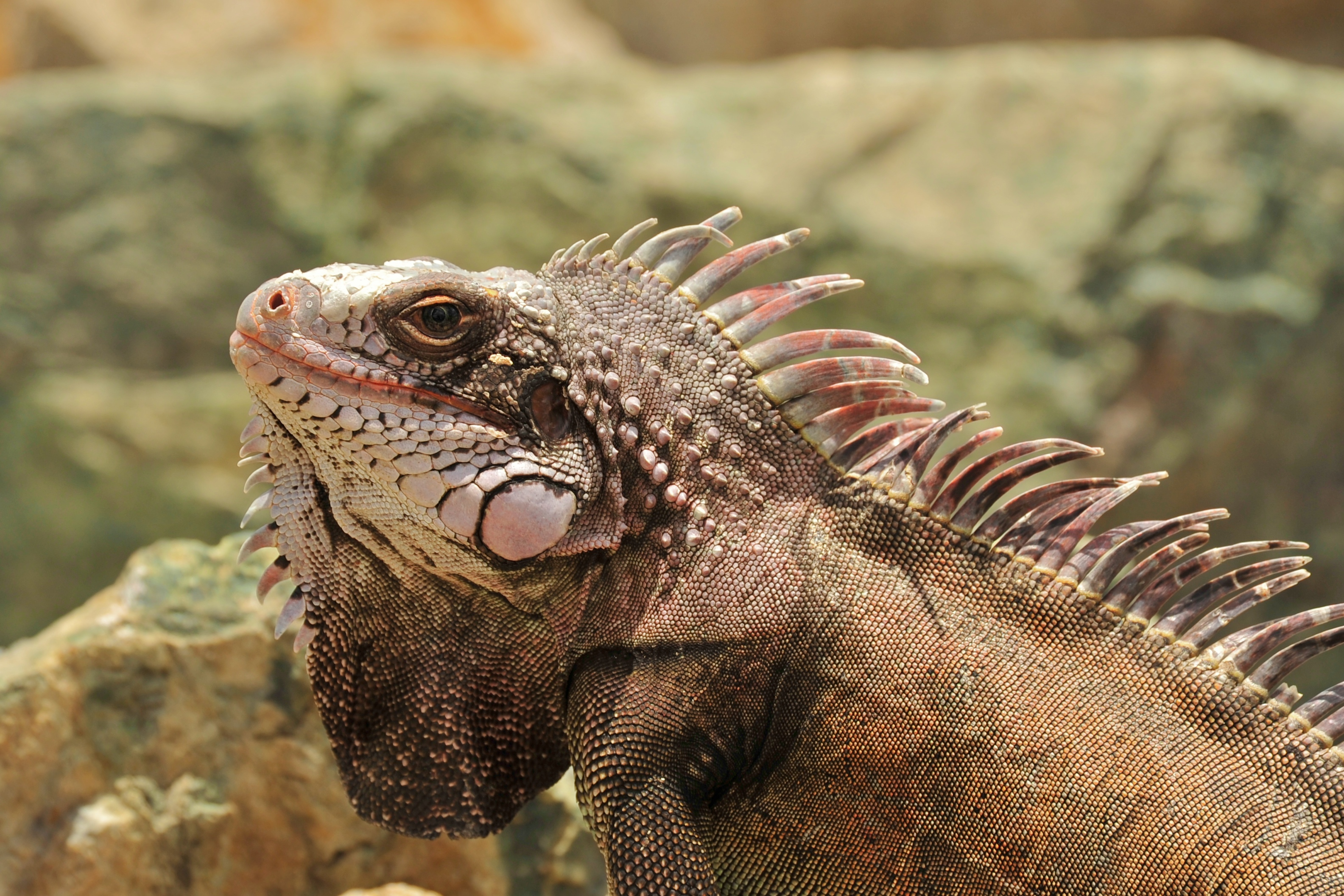 A threatened Green Iguana extends and displays its dewlap. Marriott on St. Thomas